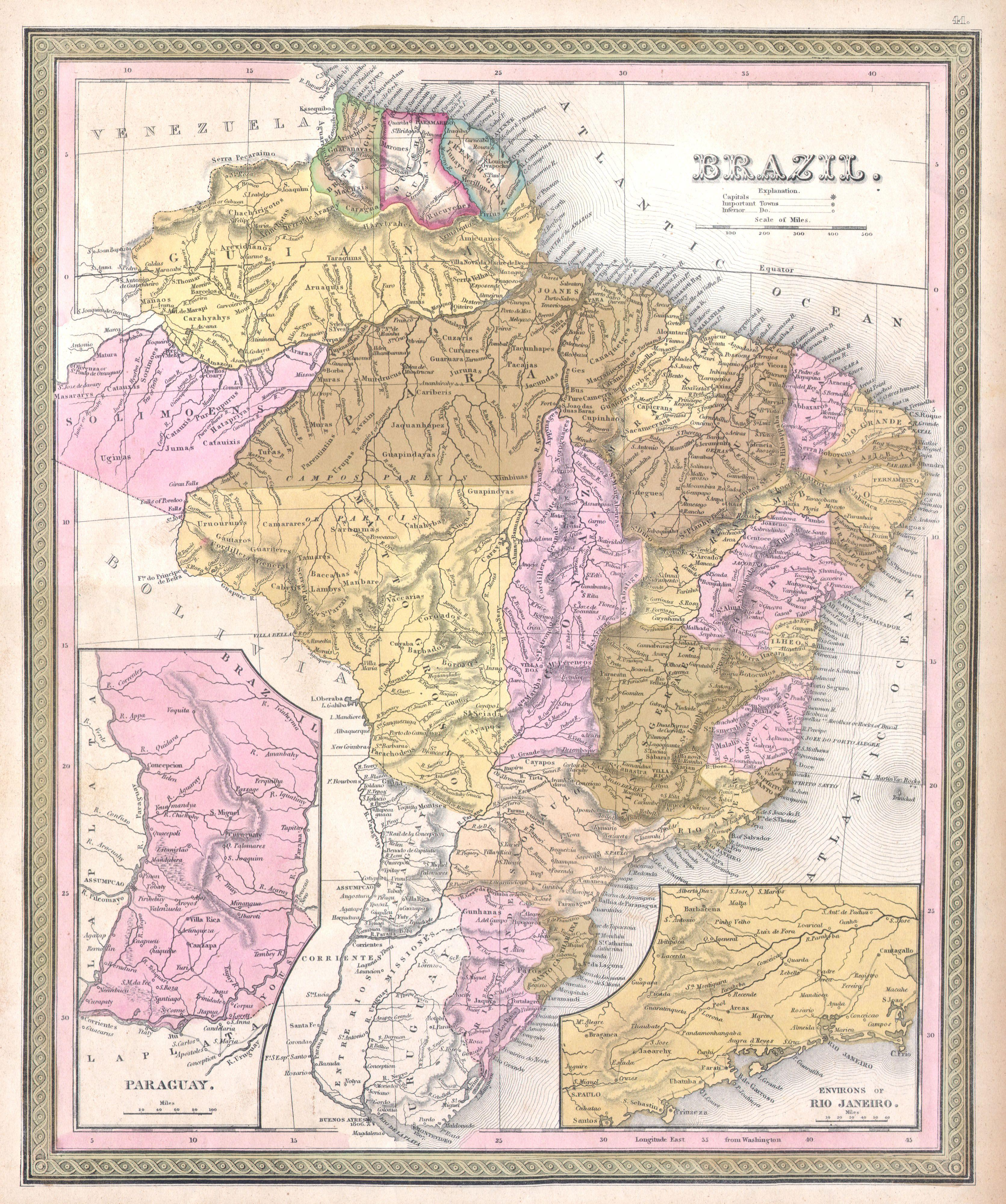 A fine and rare 1849 S. A. Mitchell Sr. map of Brazil and Paraguay. Map depicts the eastern part of South American including the Guianas, Brazil ( Brasil ) and Paraguay. Features impressive detail of the amazon basin and the interior of Brazil. Inset of the Environs of Rio de Jenario at the bottom right. Inset of Paraguay at the bottom left.